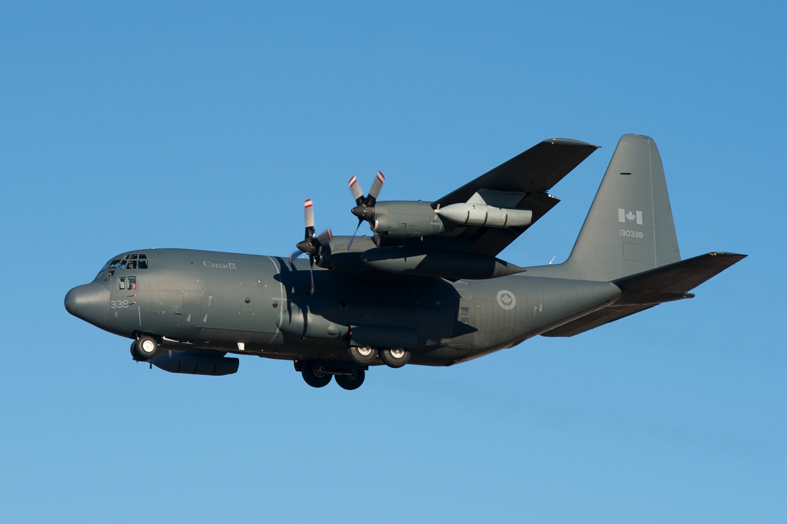 Close approach, YWG.